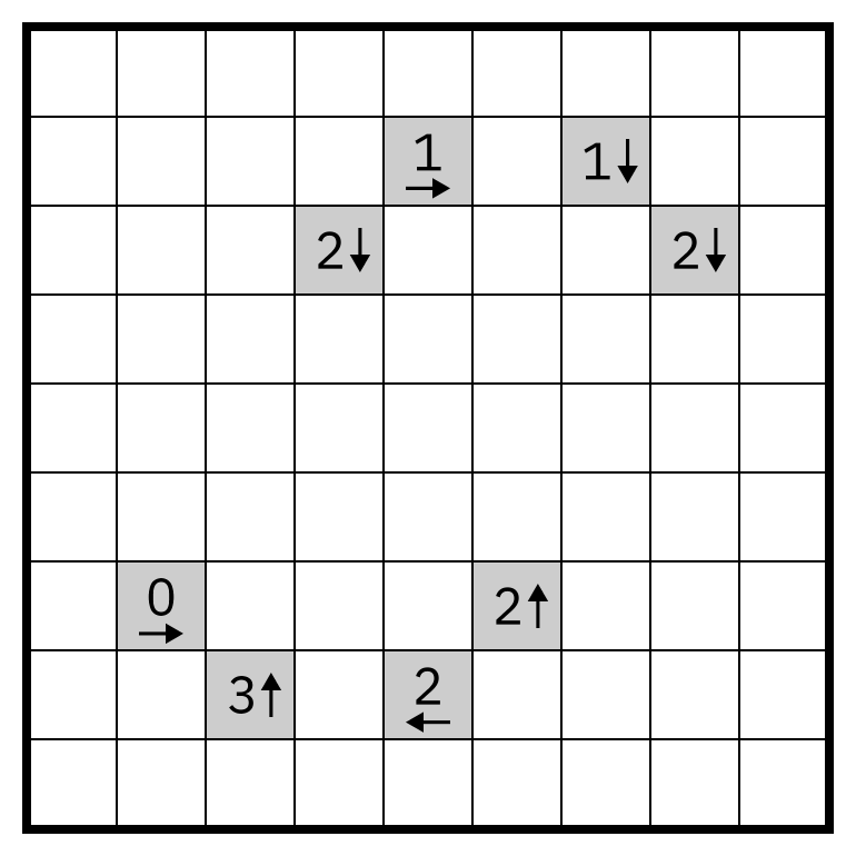 This is a 9x9 Yajilin puzzle.